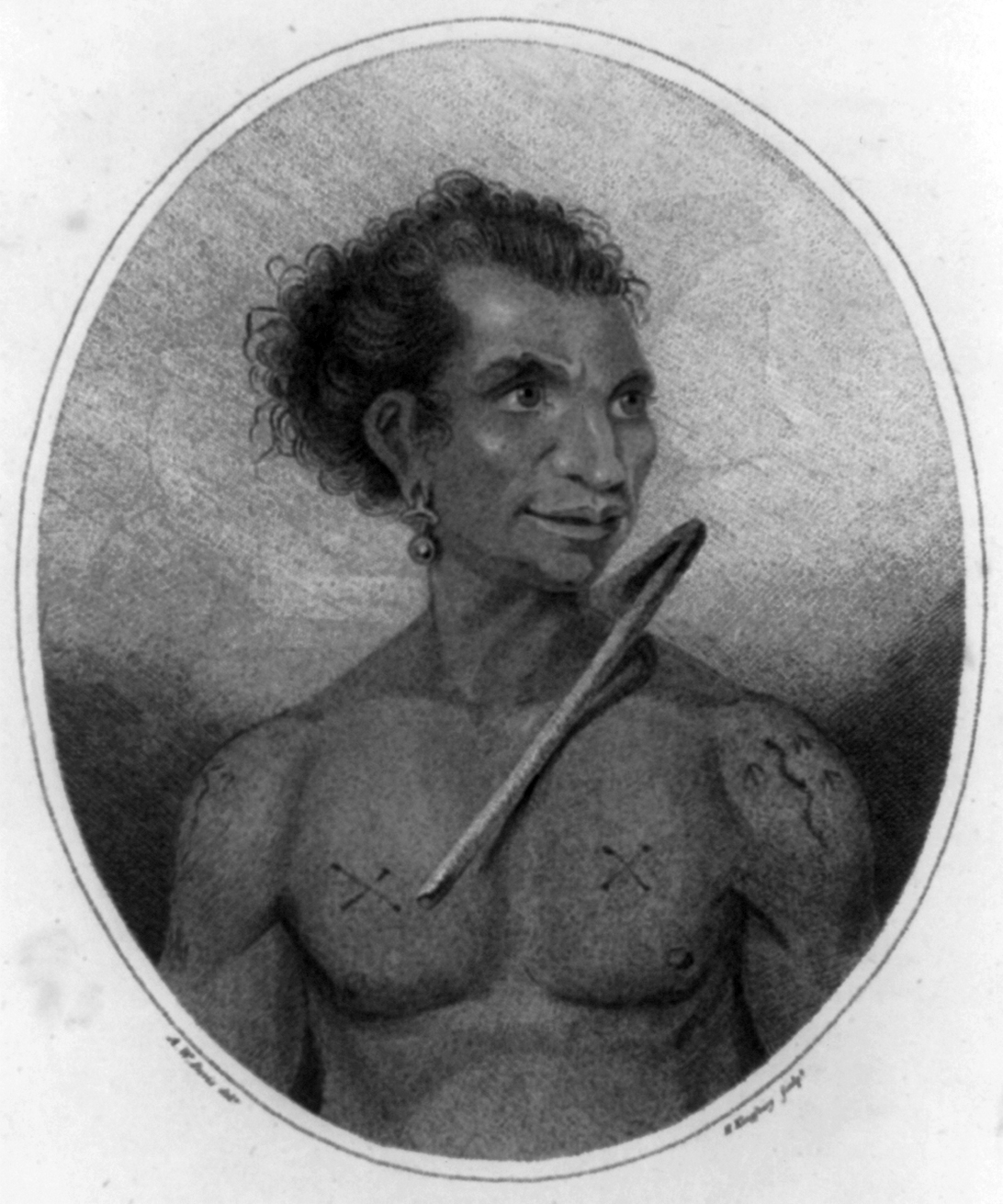 Abba Thulle, King of Pelew (Palau). Illustration in: George Keate, An Account of the Pelew Islands, situated in the Western Part of the Pacific Ocean.